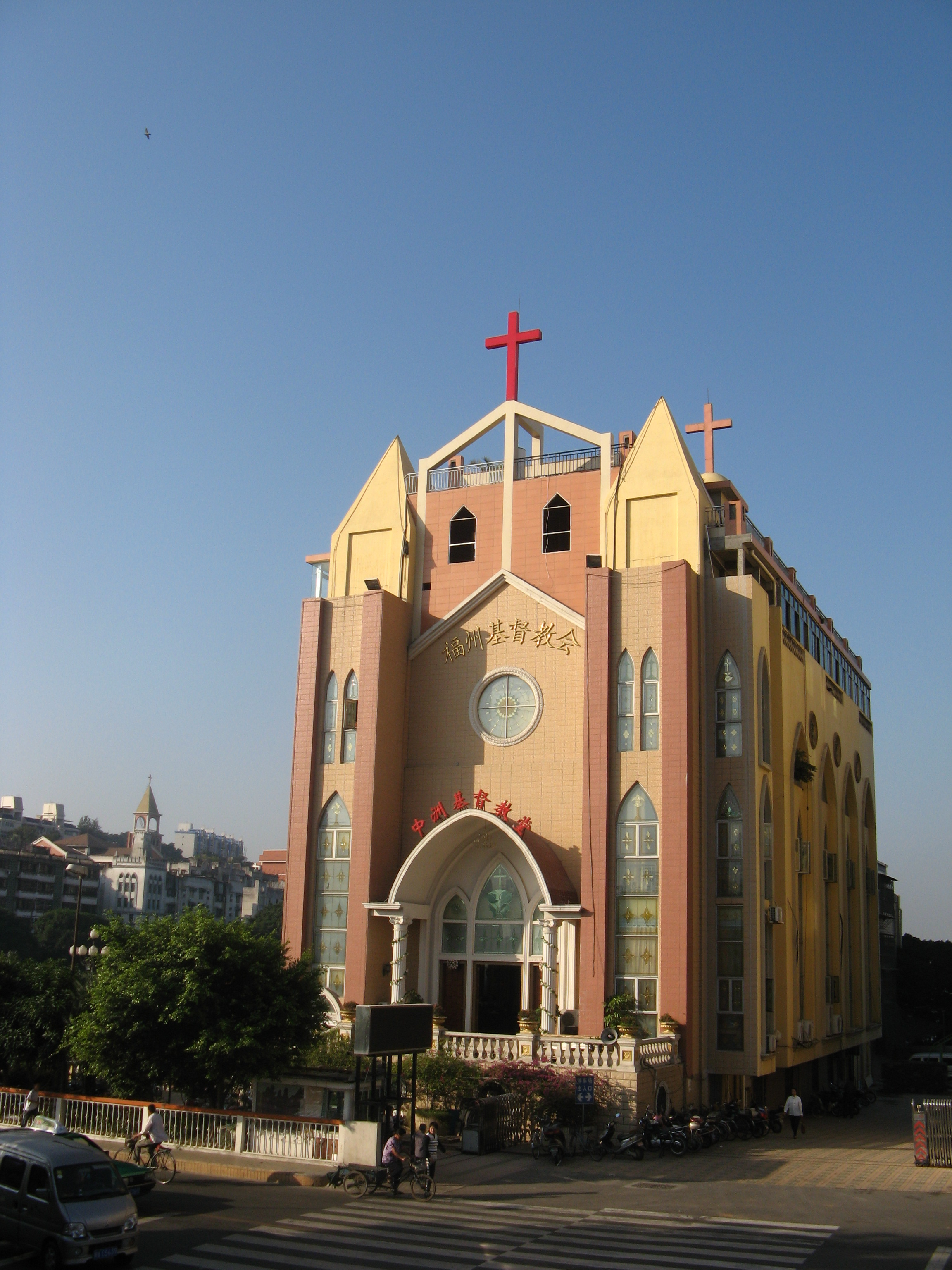 Middle Island Church, Fuzhou